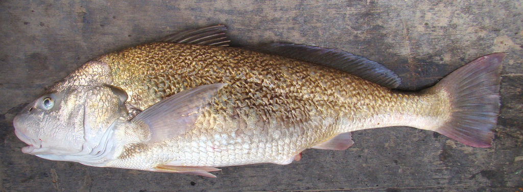 Micropogonias furnieri from the Patos Lagoon Estuary, Rio Grande do Sul, Brazil, photographed on December 2008.